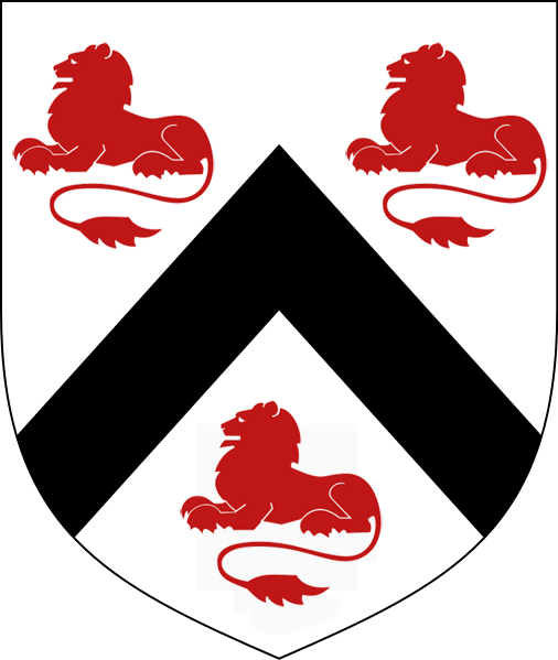 Coat of arms of the Lehane.